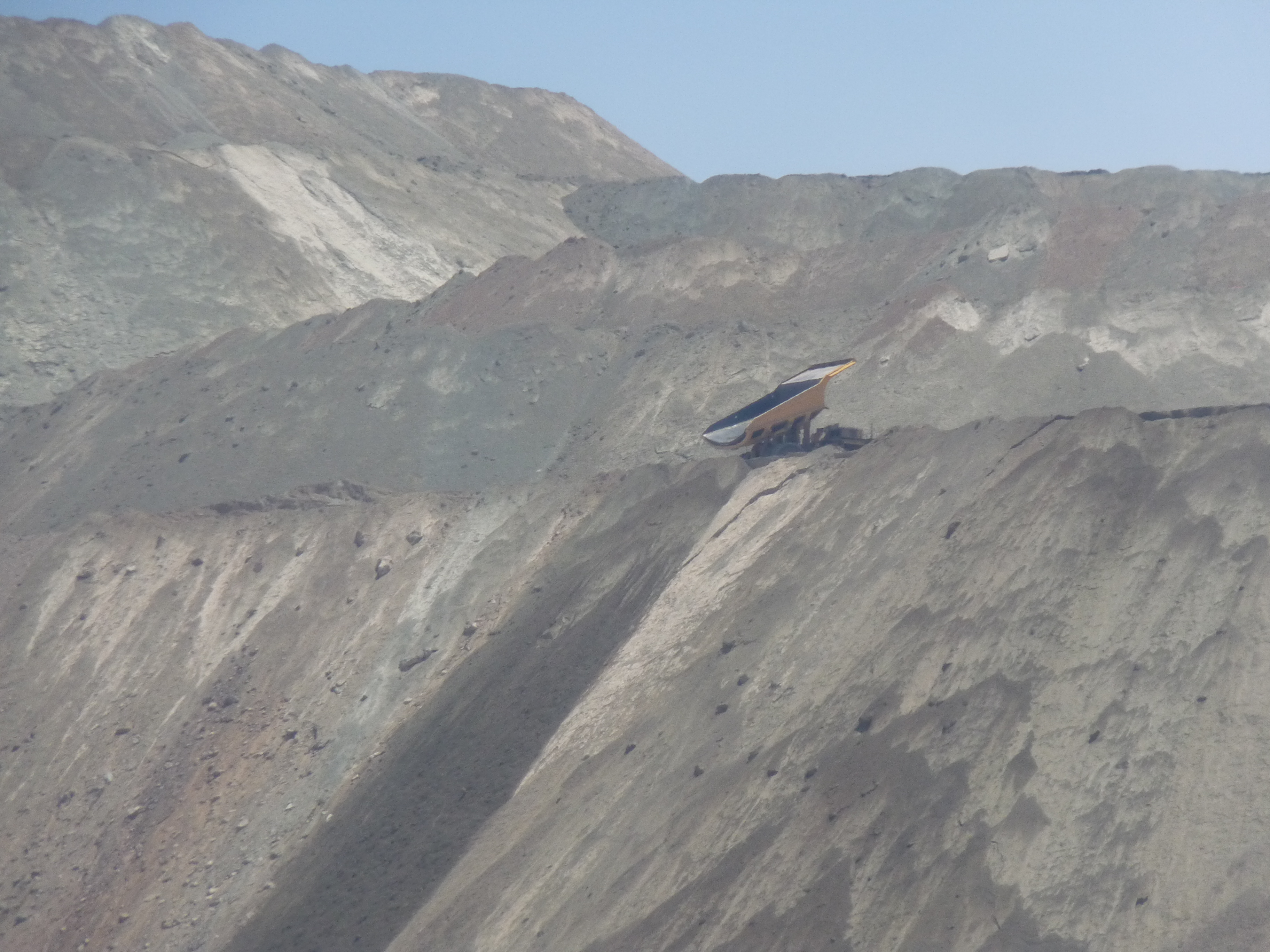 Giant truck unloading tailings from the Chuquicamata mine in Chile.